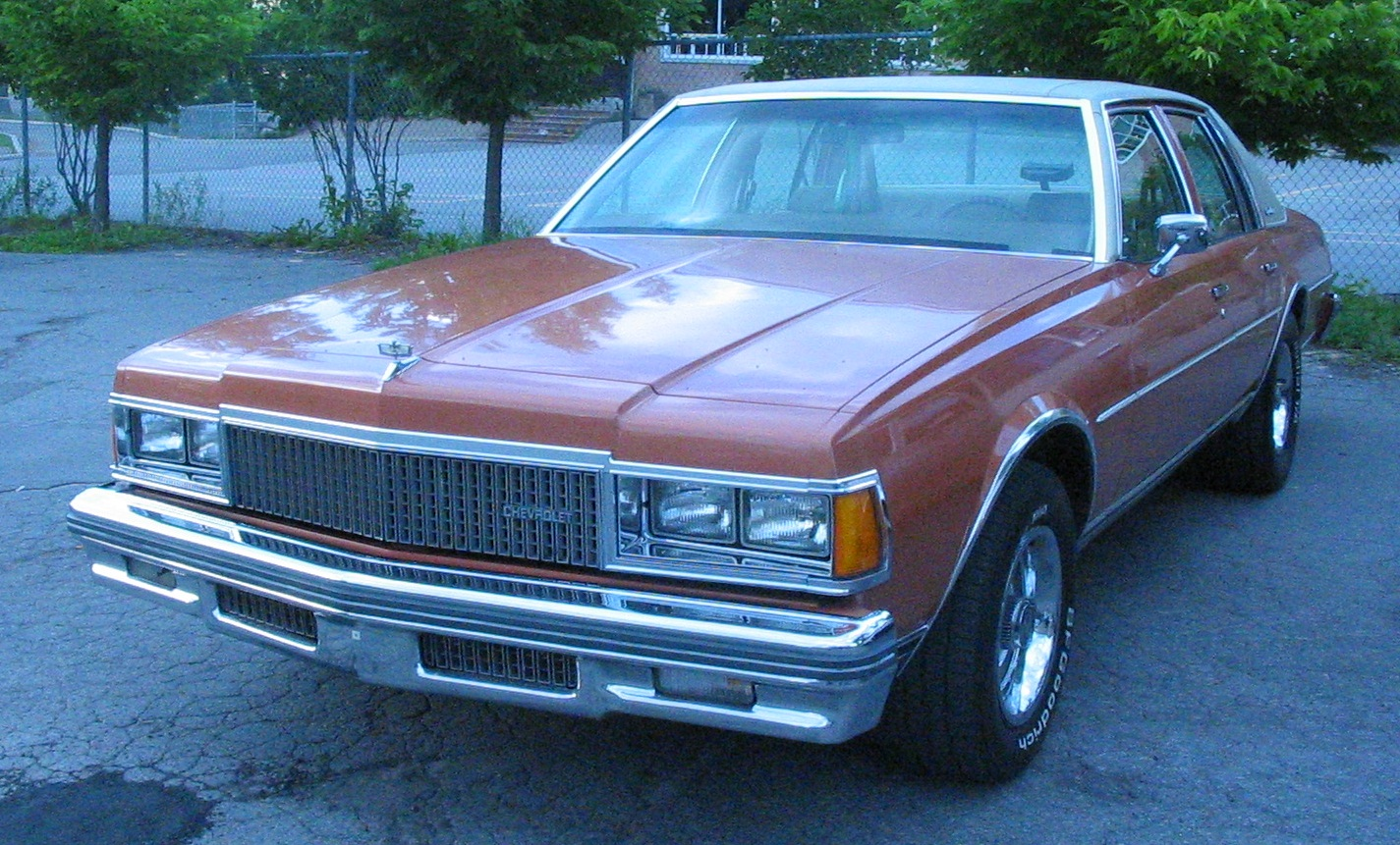 1977 Chevrolet Caprice photographed in Laval, Quebec, Canada at the Auto classique Ste-Rose.